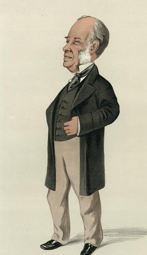 Caricature of Chippenham M.P. Gabriel Goldney. Caption read "Practical".